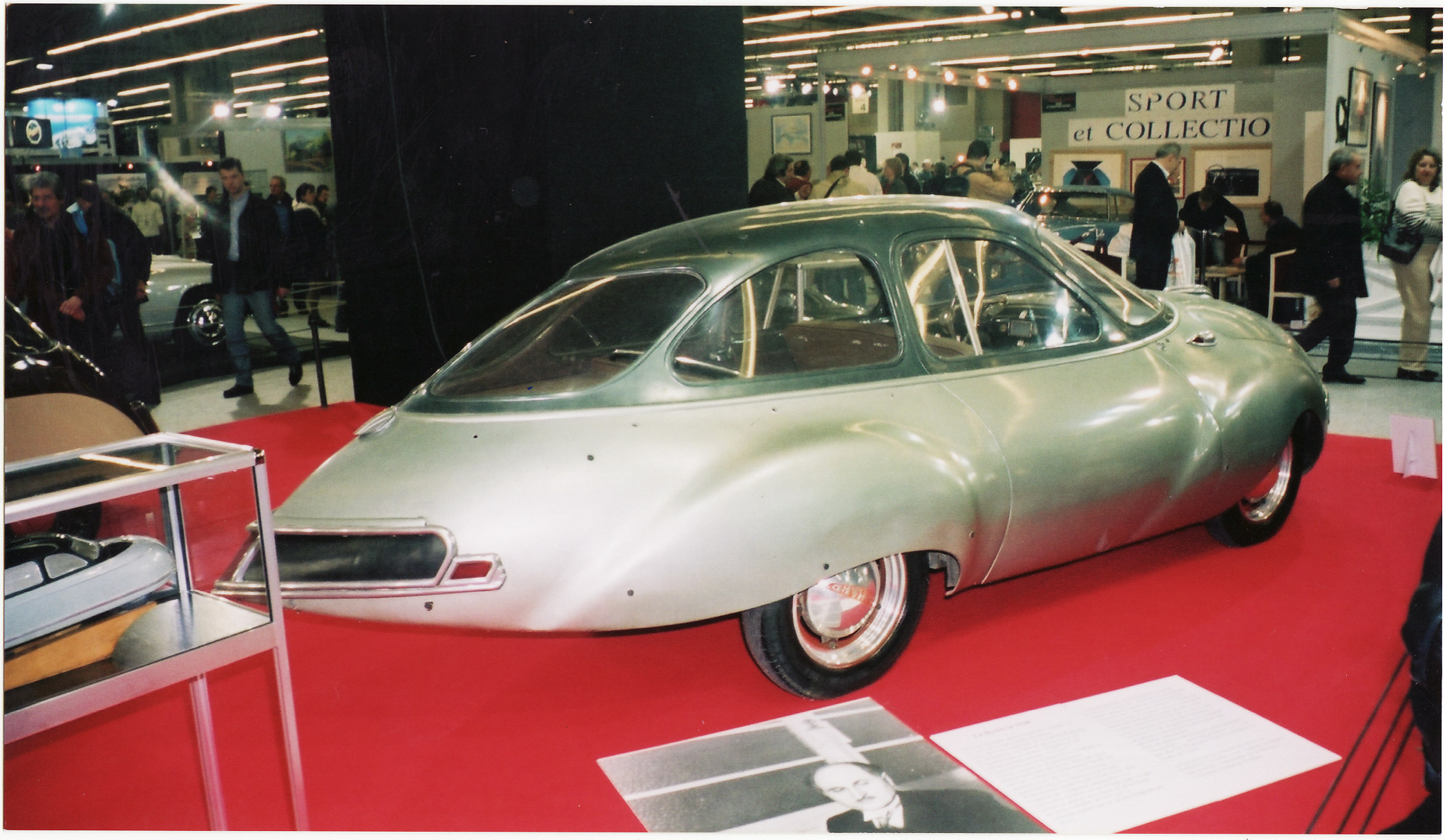 Spotted at Retromobile 2005